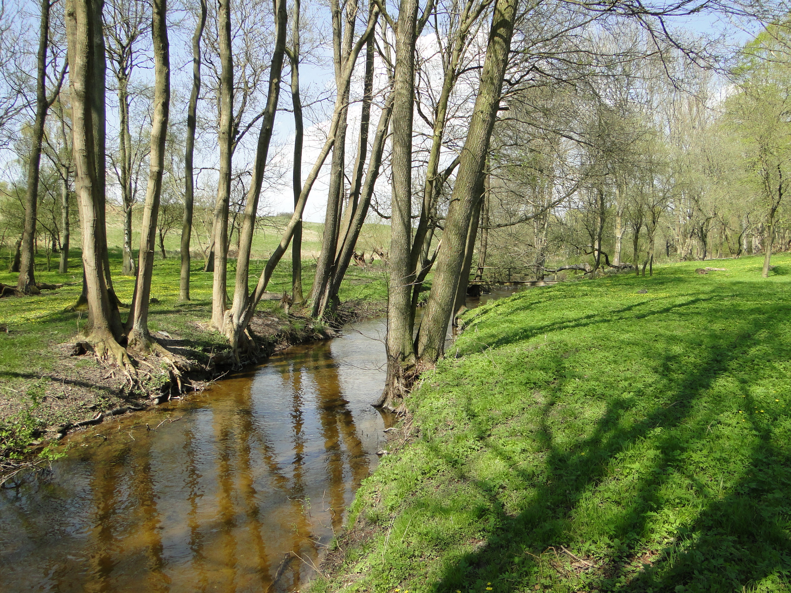 Bresenitz in Garder Mühle, district Güstrow, Mecklenburg-Vorpommern, Germany